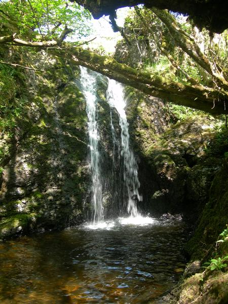 Drunmore Linn A lovely wee waterfall on the Baing Burn, hidden away among the trees.